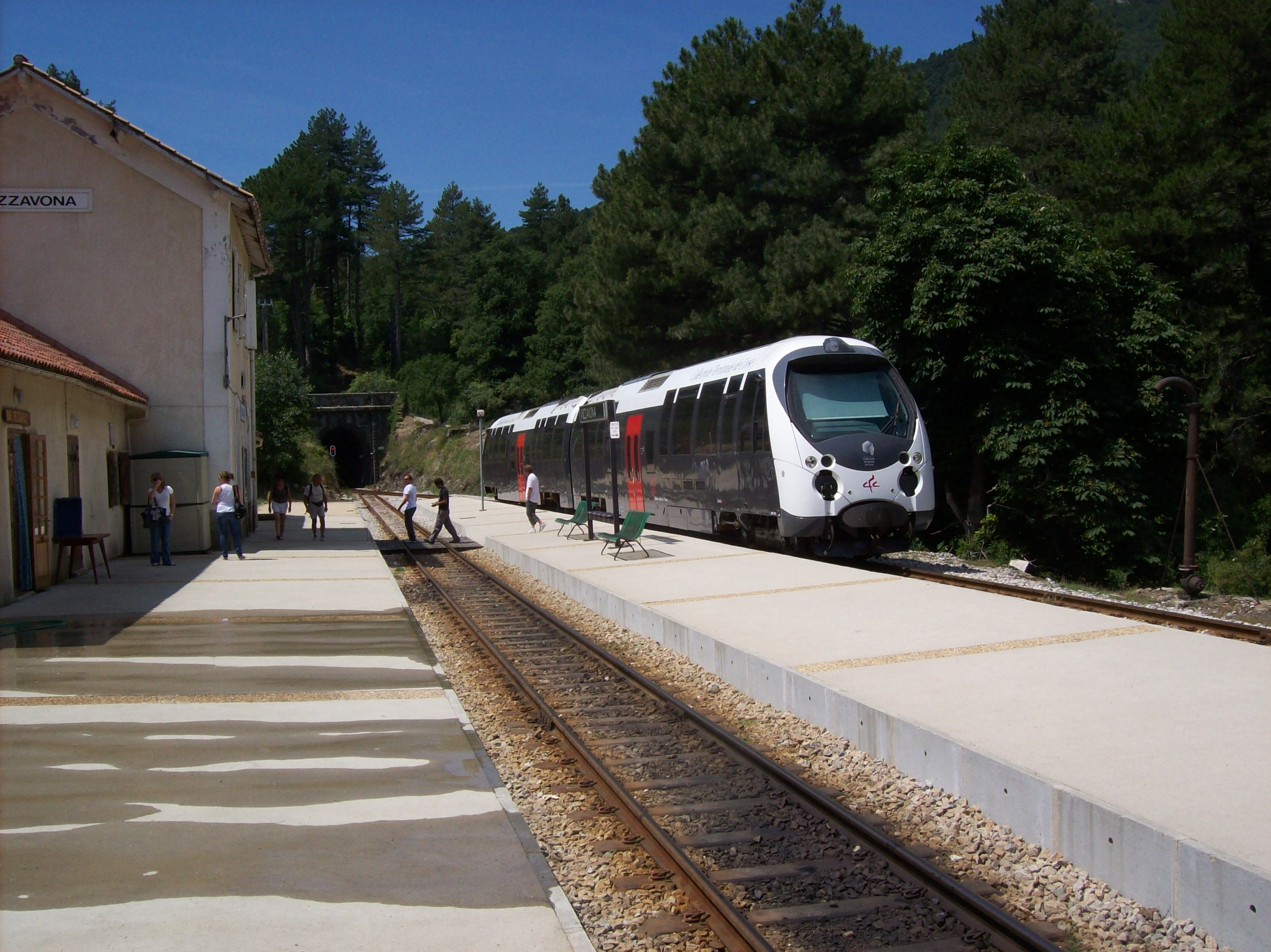 Chemin de fer de Corse: the new AMG800 in the station of Vizzavona.